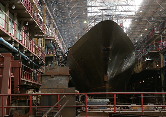 Ship-building plant in Komsomolsk-on-Amur 2014